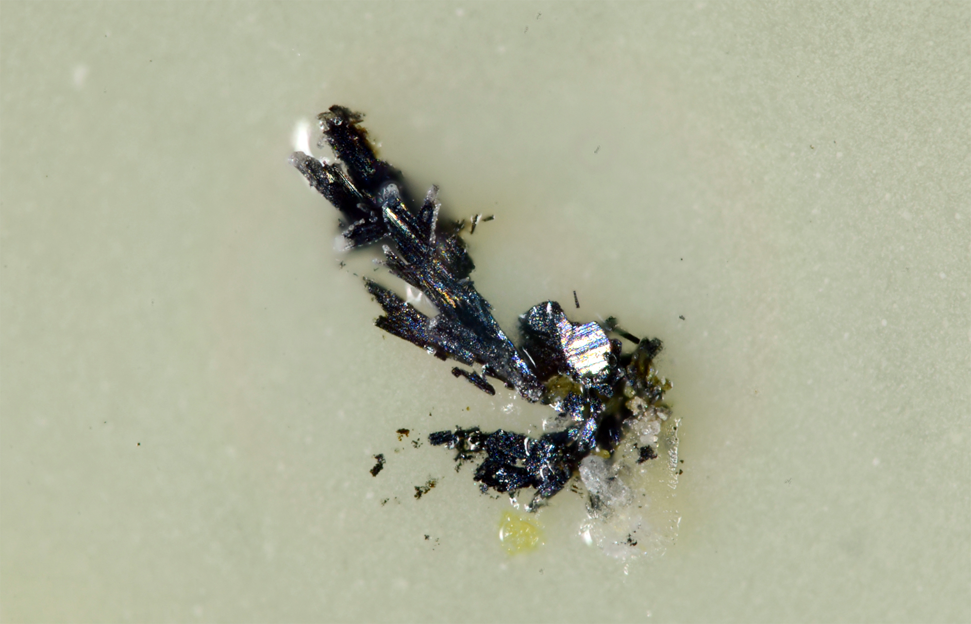 Abramovite